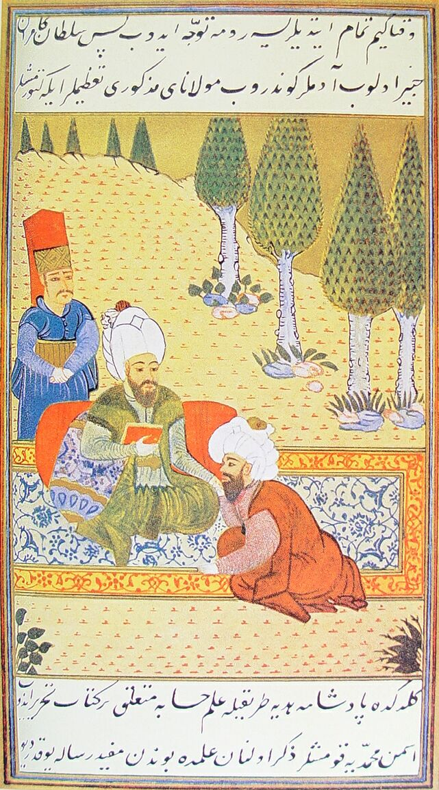 Fatih Sultan Mehmed II and Ali Kuşçu.